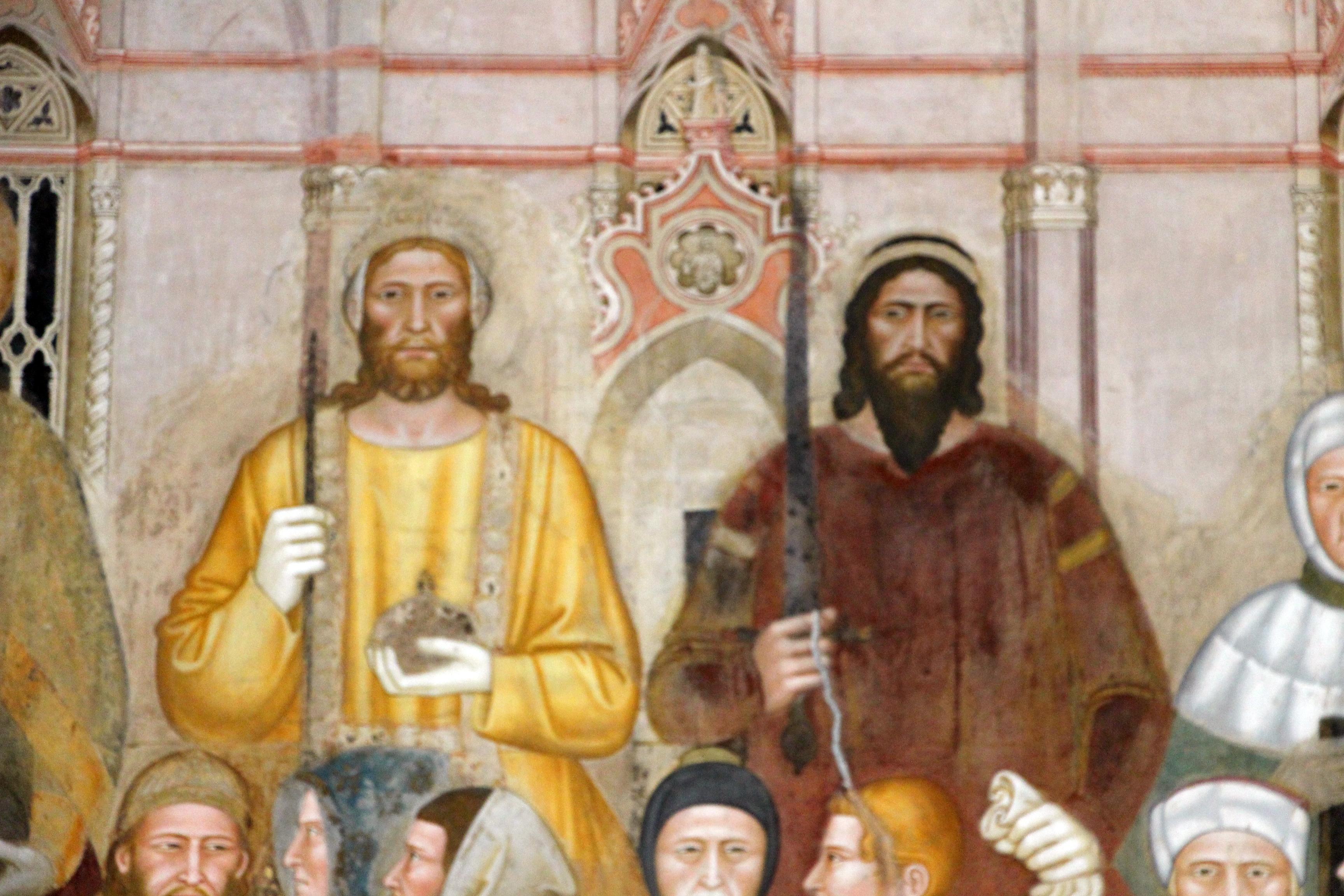 Cappellone degli Spagnoli - Via Veritas